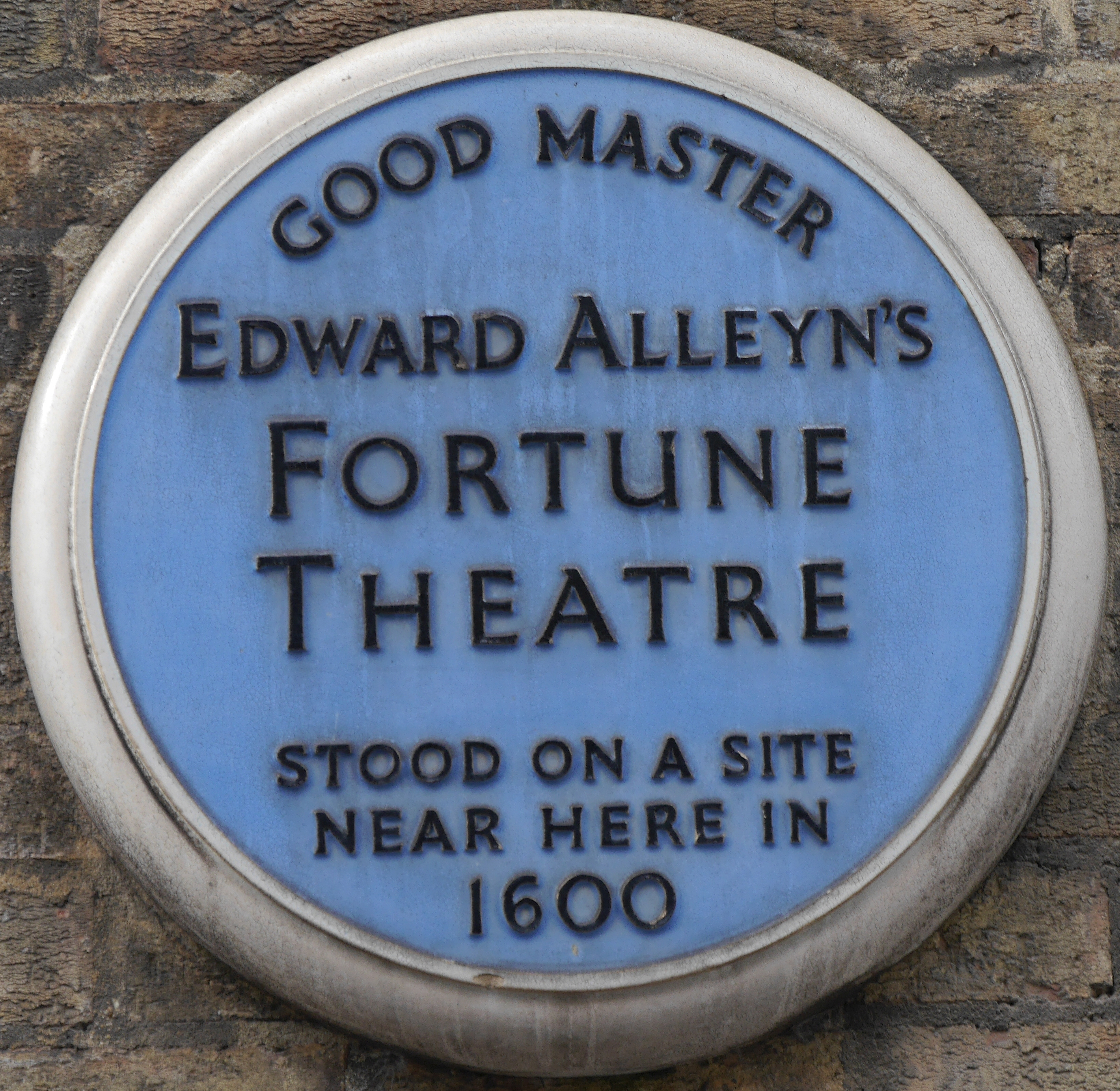 Blue plaque in London